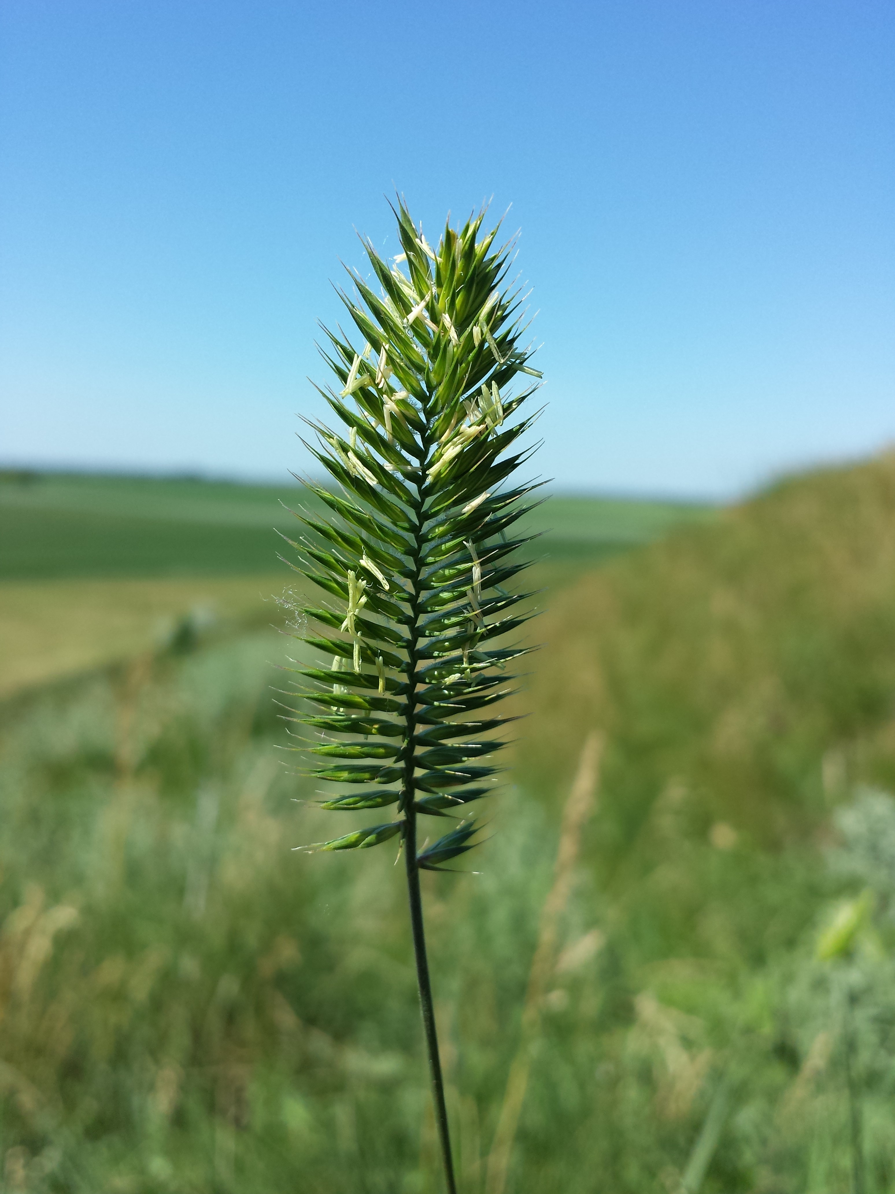 Spike Taxonym: Agropyron pectiniforme ss Fischer et al. EfÖLS 2008 ISBN 978-3-85474-187-9; det. Gergely Király 2015-06-06 Location: Loess hills next Belsőbáránd, Fejér County, Hungary - ca. 120 m a.s.l. Habitat: dry grassland on Loess